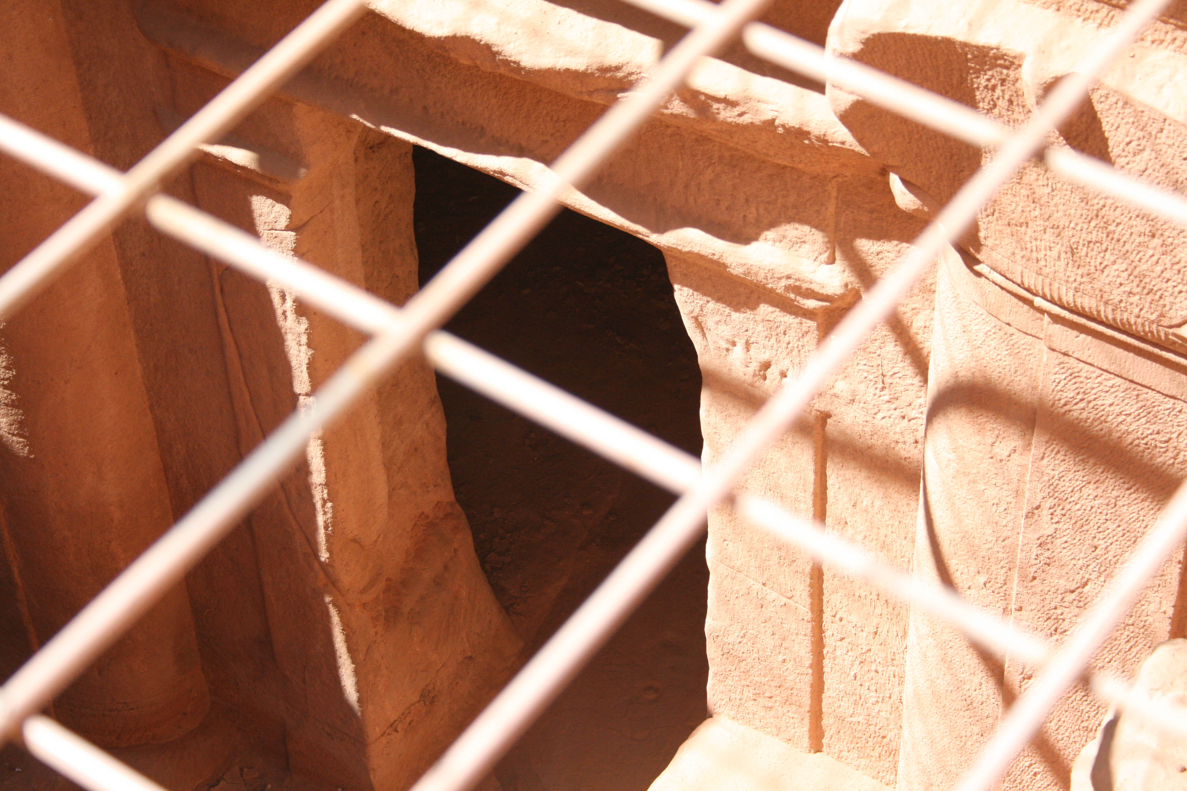 The Treasury, Petra, Jordan